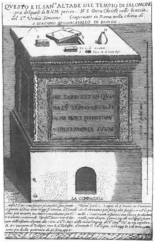 The alleged altar of the Temple of Solomon in the Church of San Giacomo Scossacavalli, Rome